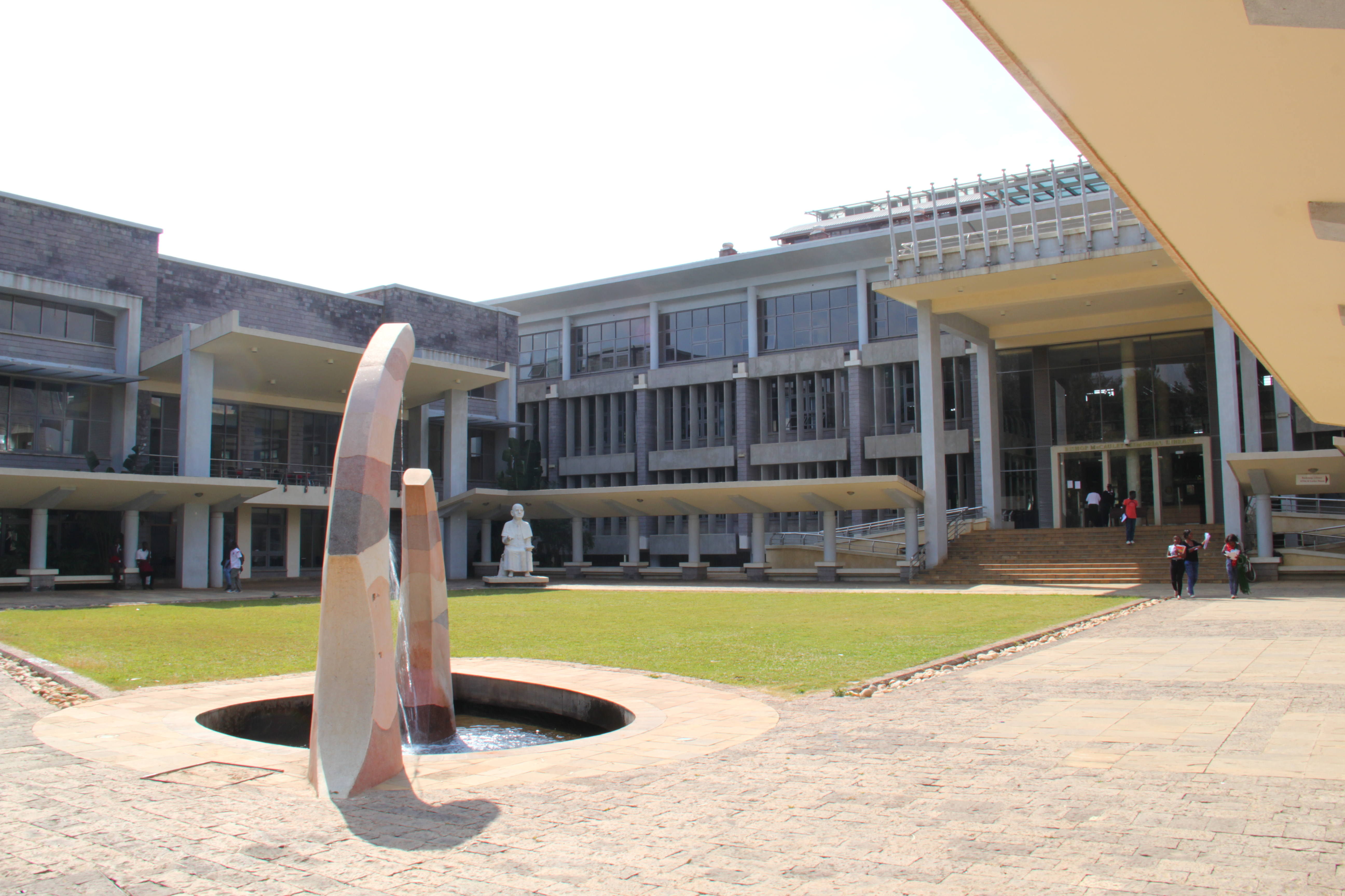 Garden of Catholic University of Eastern Africa